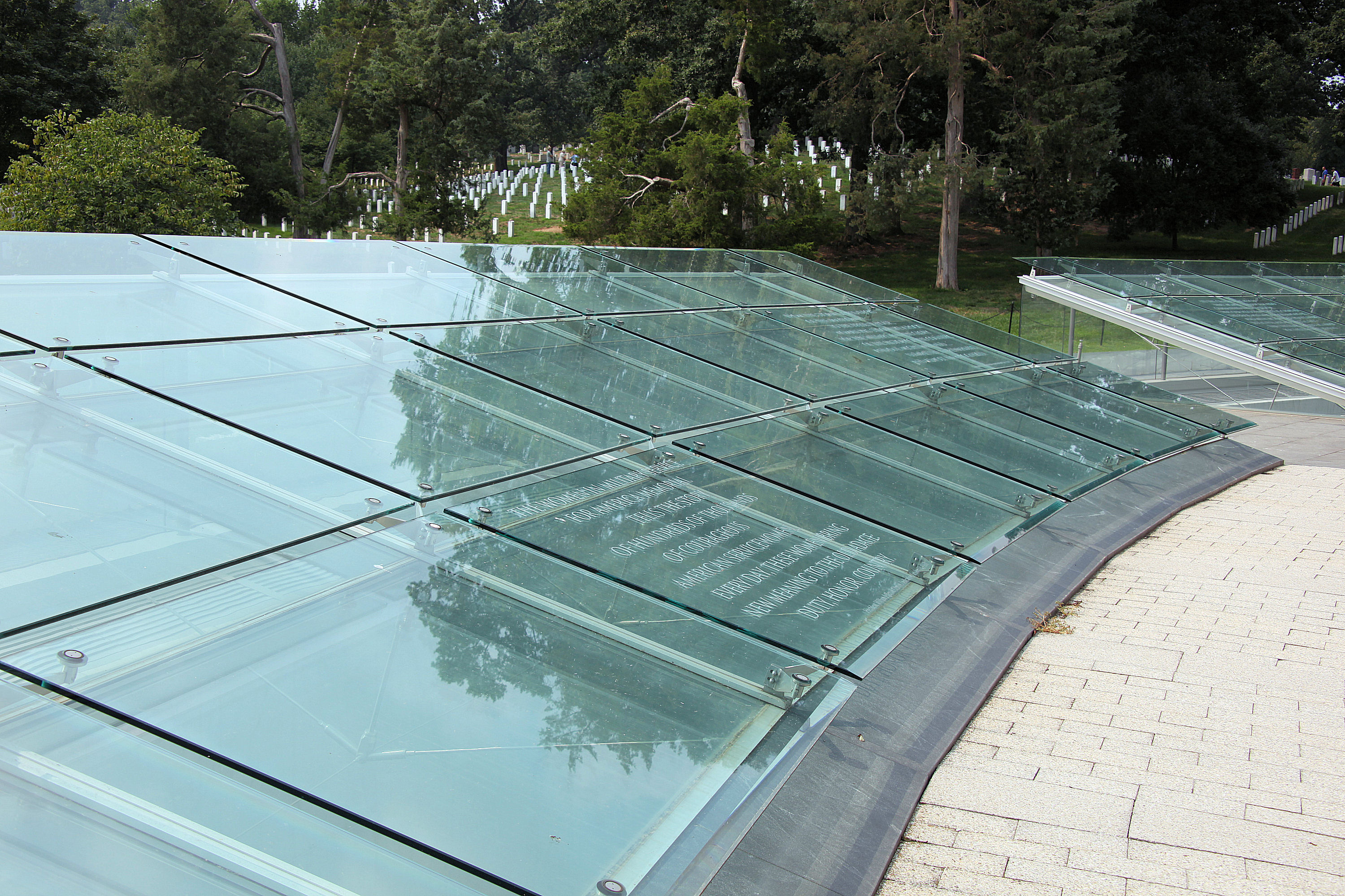 A view of the Women in Military Service for America Memorial. Originally known as the Hemicycle, this ceremonial entrance to Arlington National Cemetery was opened in 1932. Along the Arlington Memorial Bridge and the George Washington Memorial Parkway (then known as the Mount Vernon Memorial Parkway), it was constructed in celebration of the bicentennial of George Washington's birthday. Unfinished, unused, and in disrepair by the early 1980s, it was transformed into the Women in Military Service for America Memorial and opened to the public on October 20, 1997. Glass panels, some inscribed with quotations from famous women in the military or others praising their serivce, form the rear of the terrace on top of the memorial and act as a skylight for the exhibit galleries below.